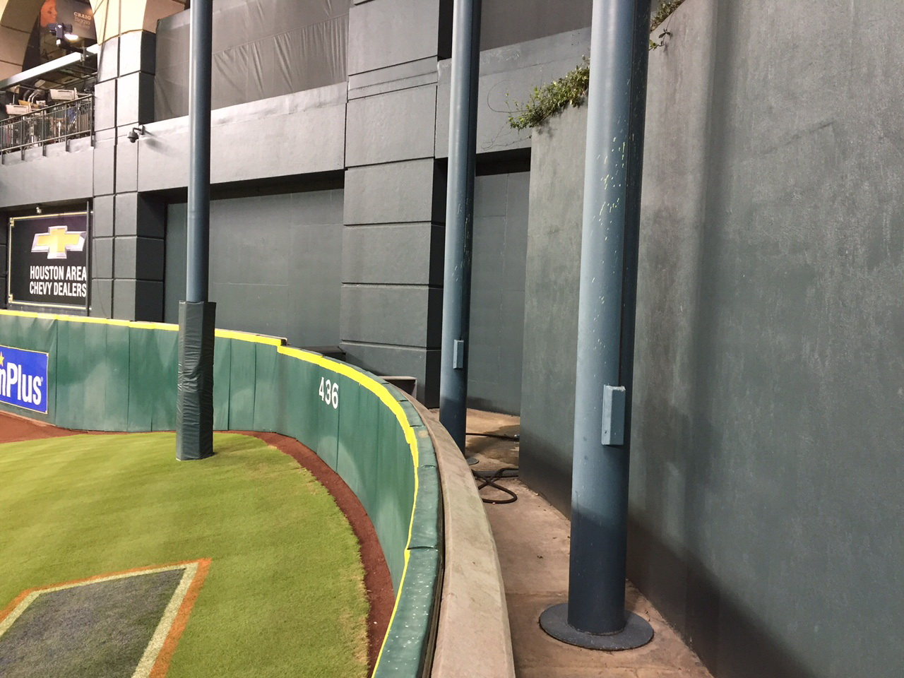 Flagpole configuration in center field and behind center field wall at Minute Maid Park, Sept. 2, 2015.